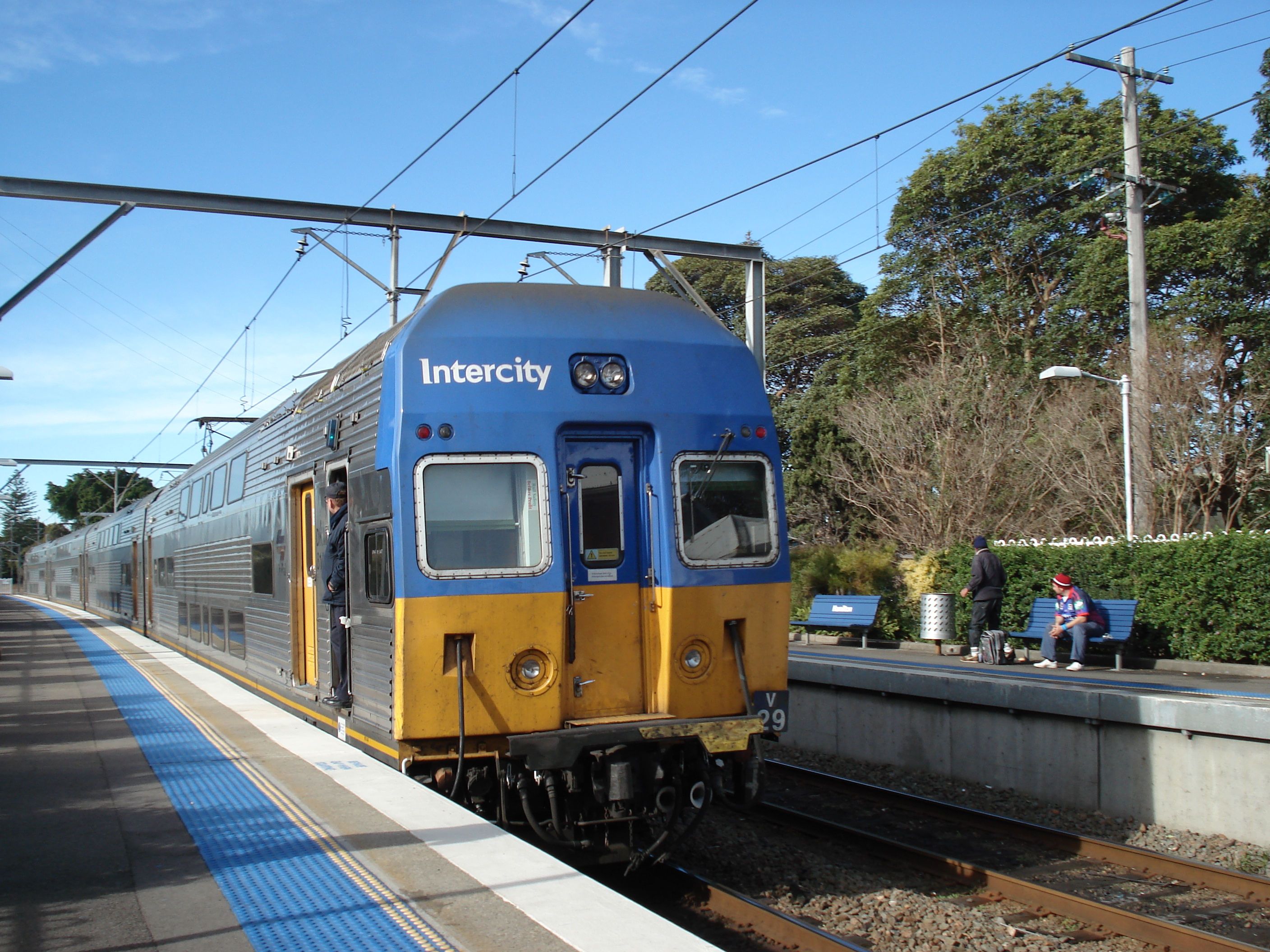 A CityRail Intercity V Set in the new livery at Hamilton, on the Central Coast about to head up to Newcastle where it will terminate.